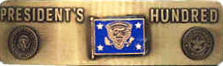 Image of the Civilian Marksmanship Program's President's Hundred Brassard that is worn by U.S. Navy enlisted personnel that have eared the award.